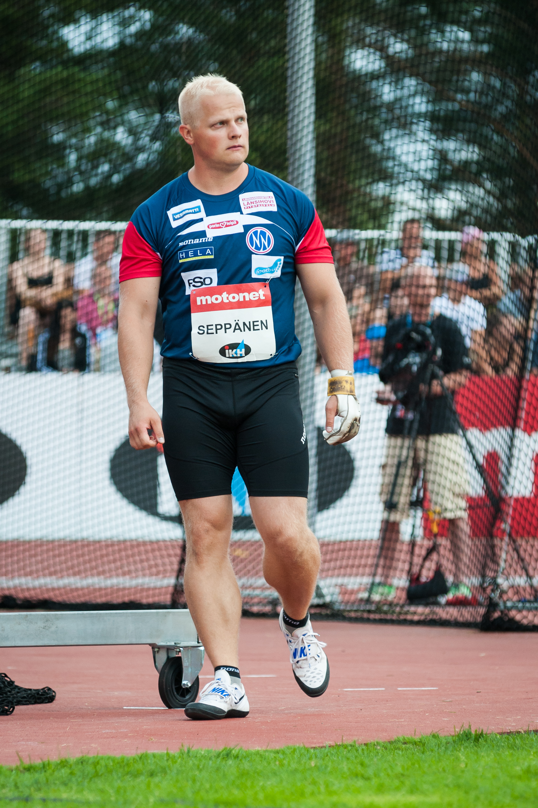 Men's hammer throw competition at the 2018 Kalevan Kisat, the Finnish championships in athletics, in Jyväskylä, Finland.